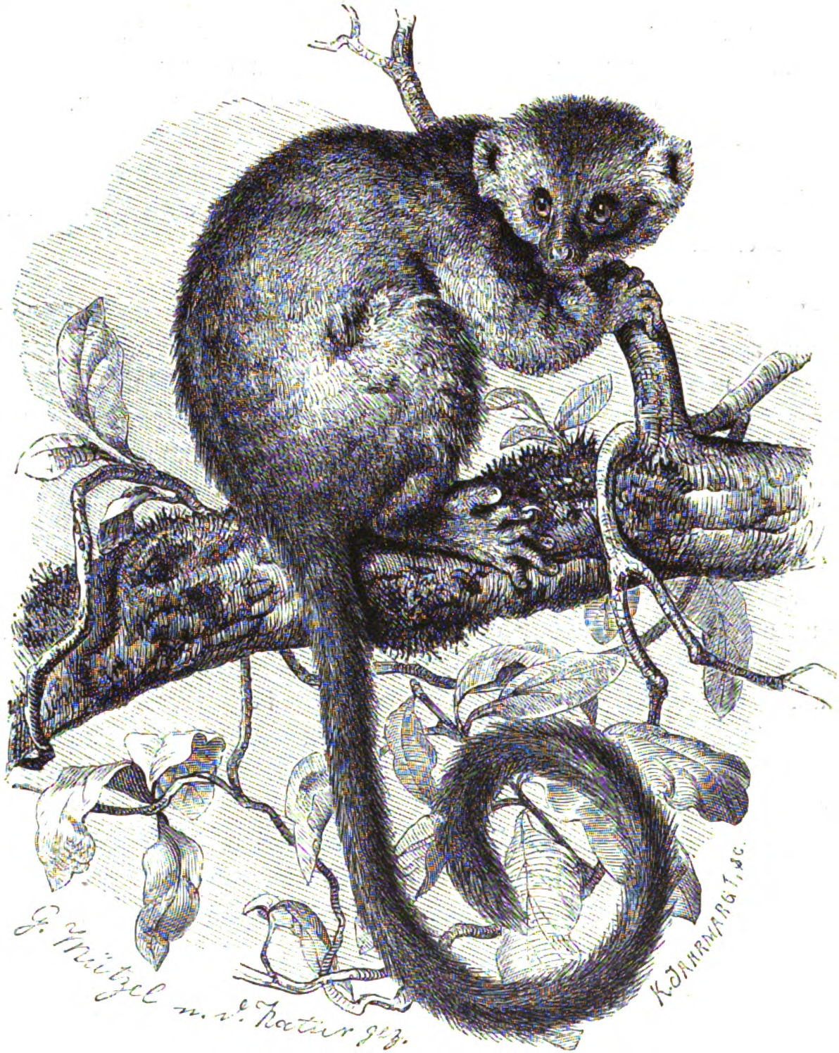 Eastern lesser bamboo lemur (Hapalemur griseus)